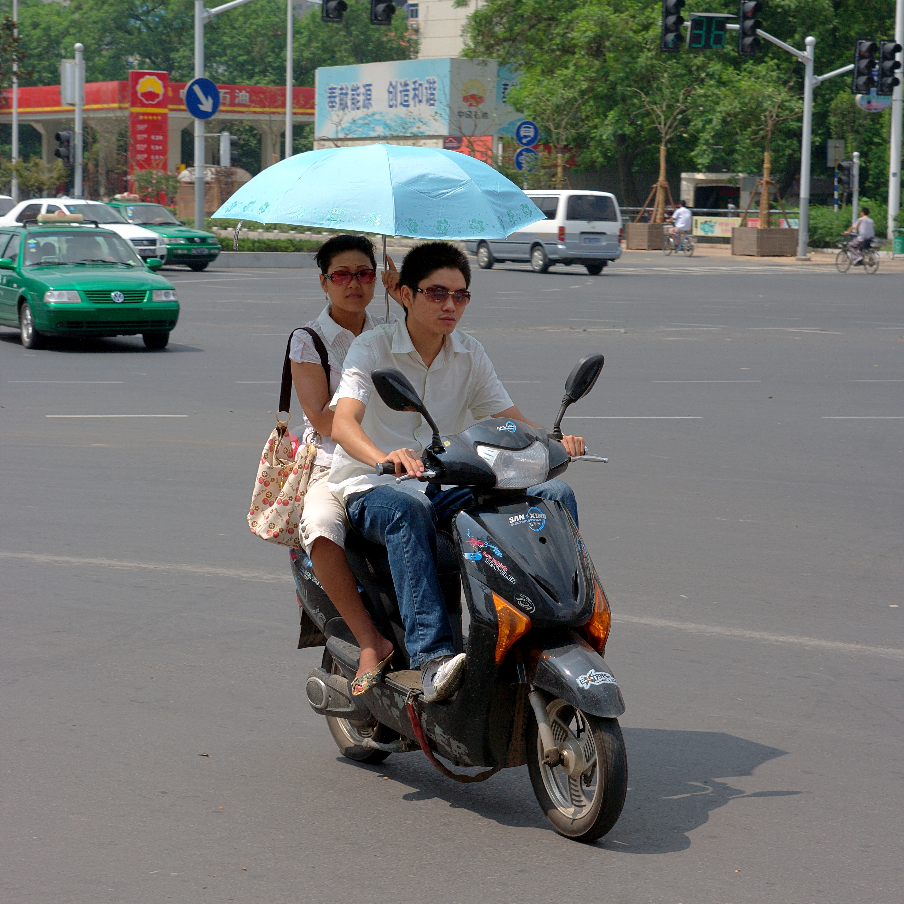 A woman and a man are riding a motorbike, the woman is holding an umbrella. Nanjing, China.